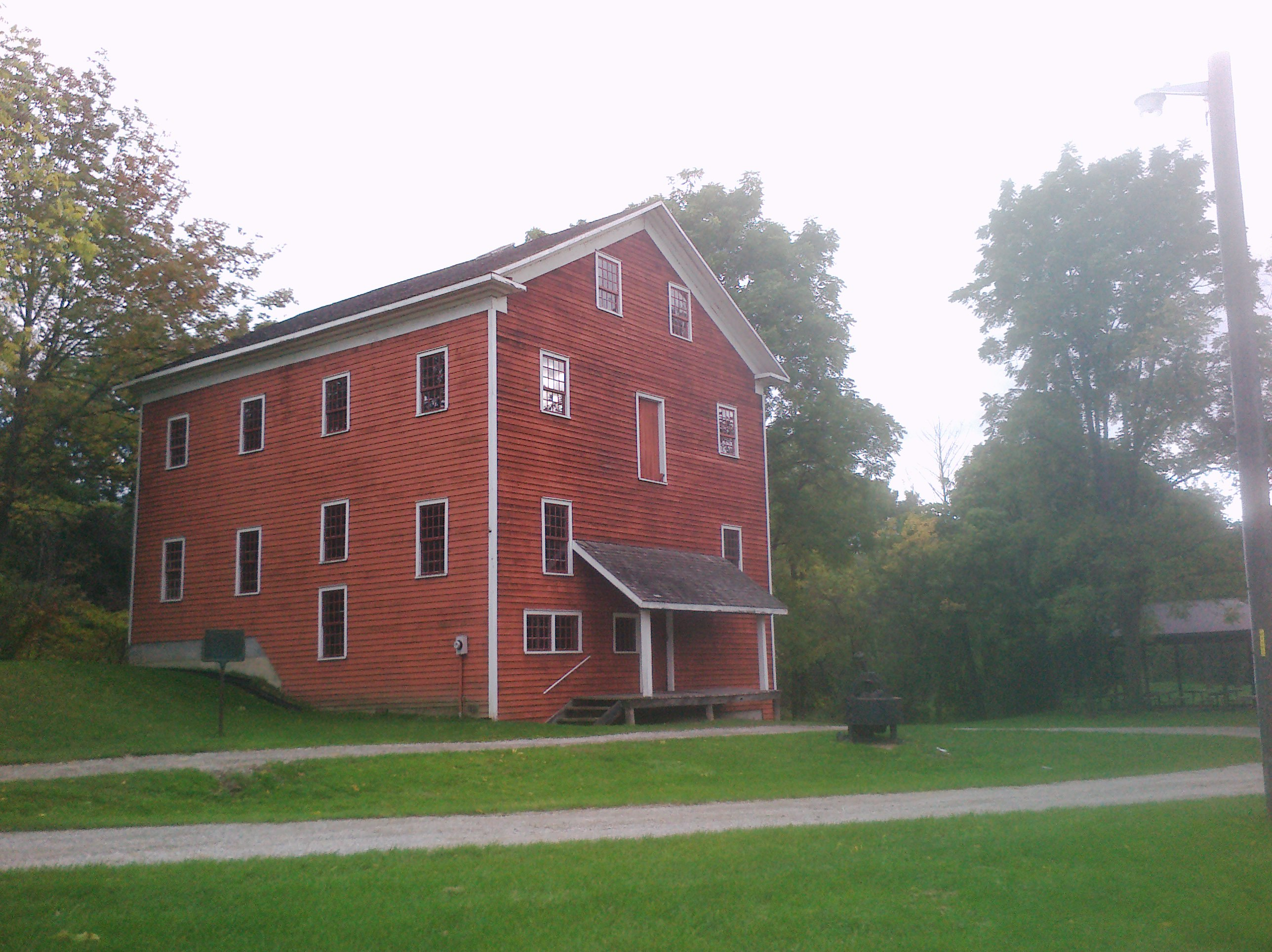 Otterville Mill, Northern exposure, Otterville, Ontario, Canada